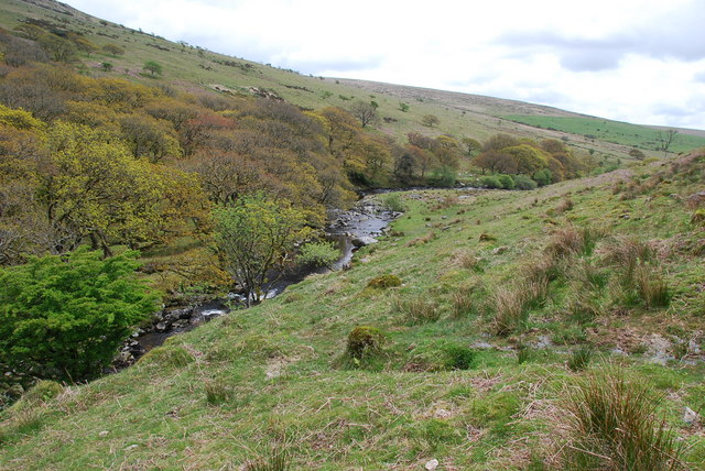 River Erme Looking down stream on the Erme,with part of Piles Copse on the left.The valley is starting to lose its steep sides.